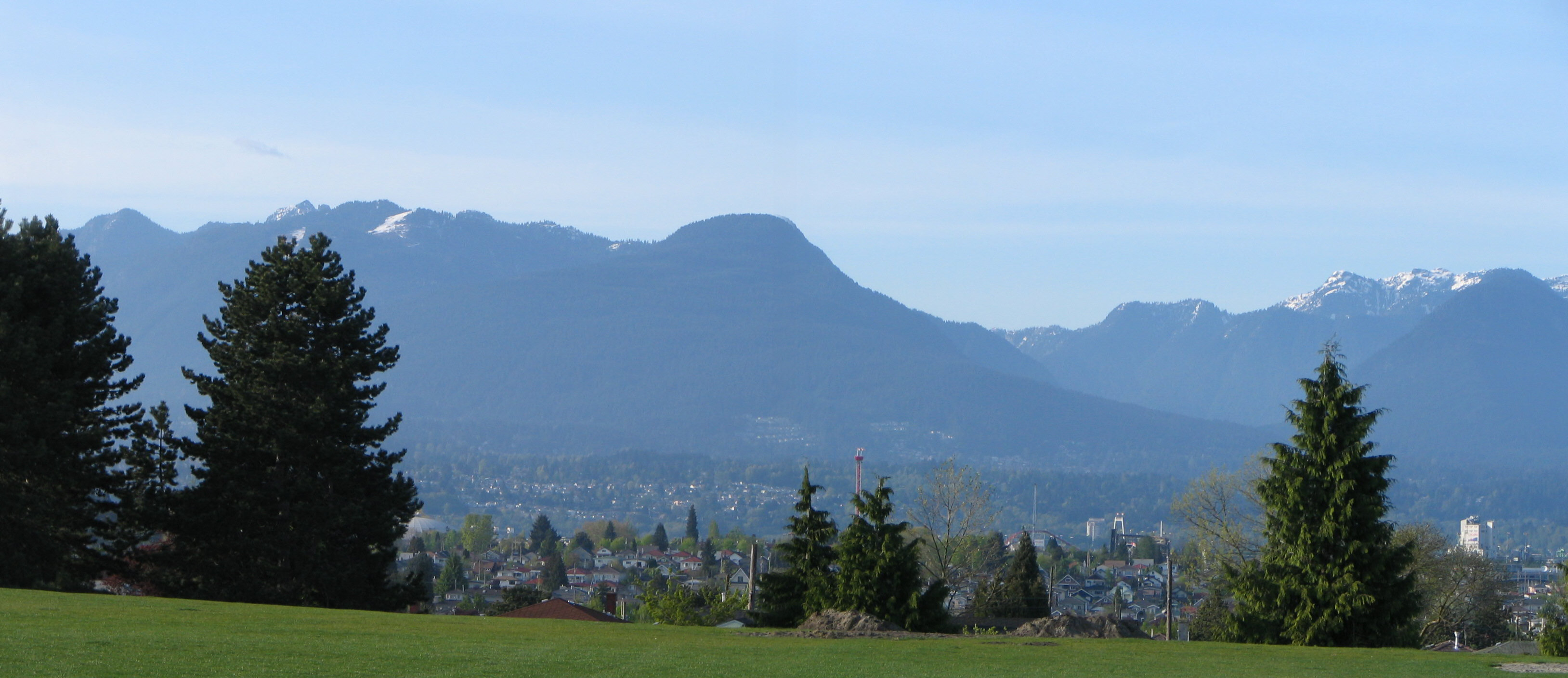 This image was created by me, Flying Penguin of Pacific Spirit Photography ( of Burnaby, British Columbia, Canada